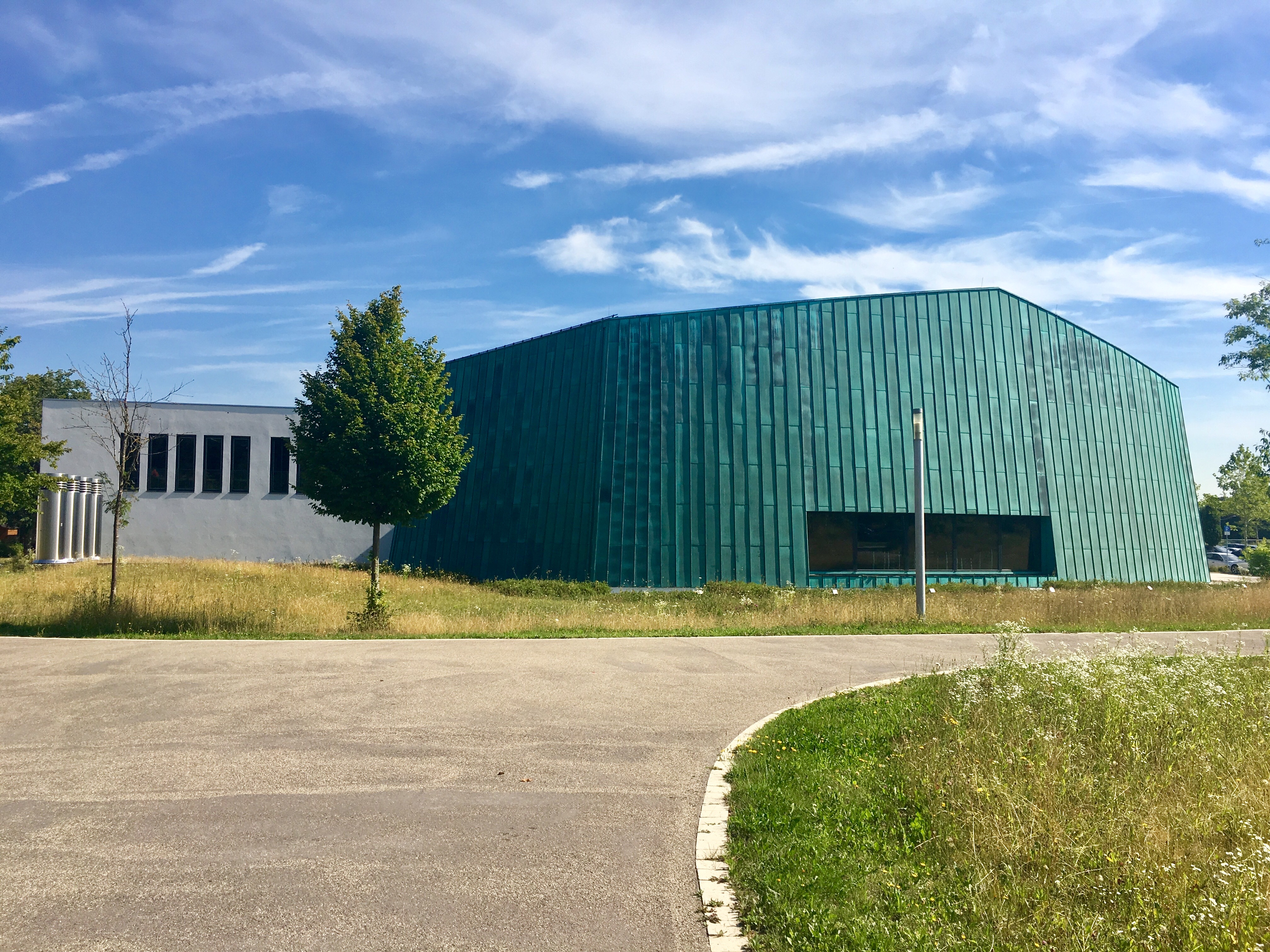 Kupferhaus Planegg, part of the Feodor-Lynen-Gymnasium Planegg.